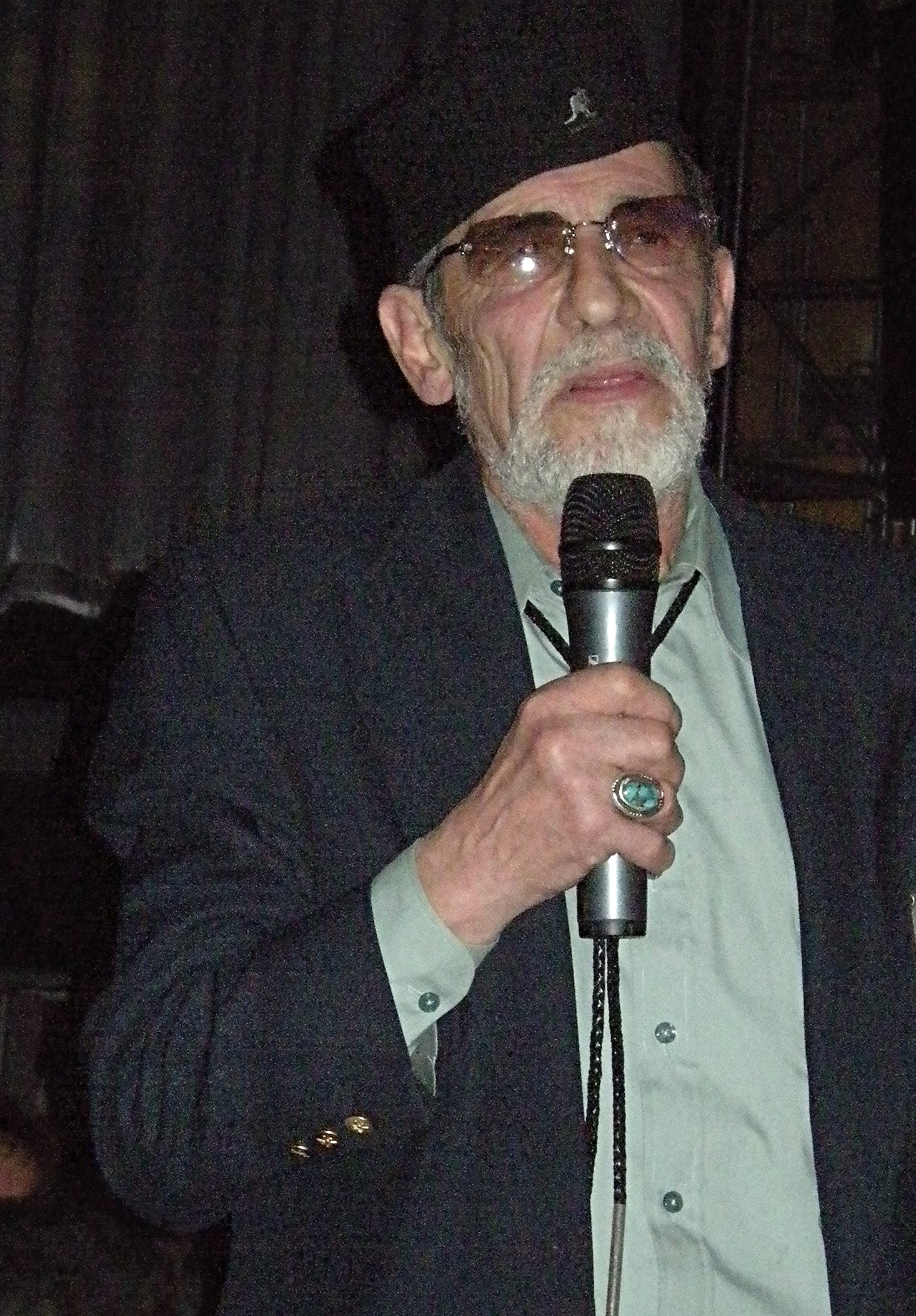 Roberto Maestas, founder of El Centro de la Raza, Seattle, Washington, attending the keynote panel of 2008 Pop Conference, Experience Music Project, Seattle, Washington. Panel was called "Ritmo and Blues: Hidden Histories Shaking Up 'American' Pop", and focused on the contributions of people of Latin American origin or ancestry to popular music in the United States. Maestas was making a comment/question from the floor. Standing behind (but not a very good image of her) him is Ann Powers of the Los Angeles Times (for whom there is a much better image at Image:Ann Powers 01A.jpg).